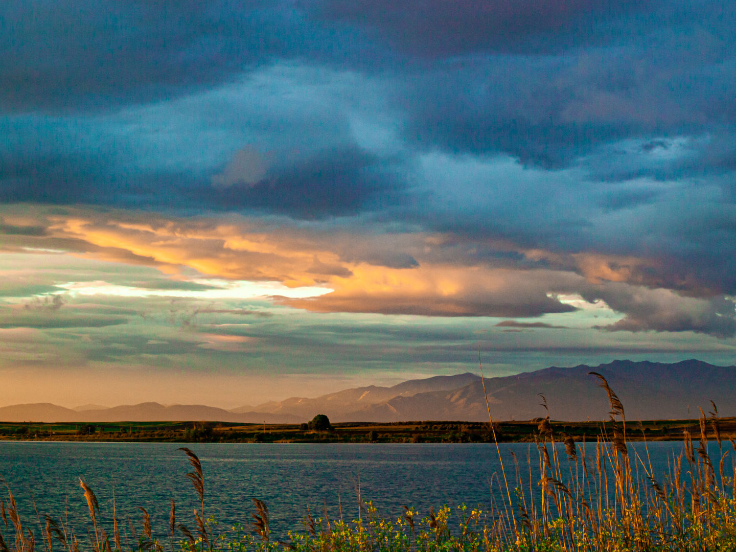 This is a photography of Natura 2000 protected area with ID GR1130010